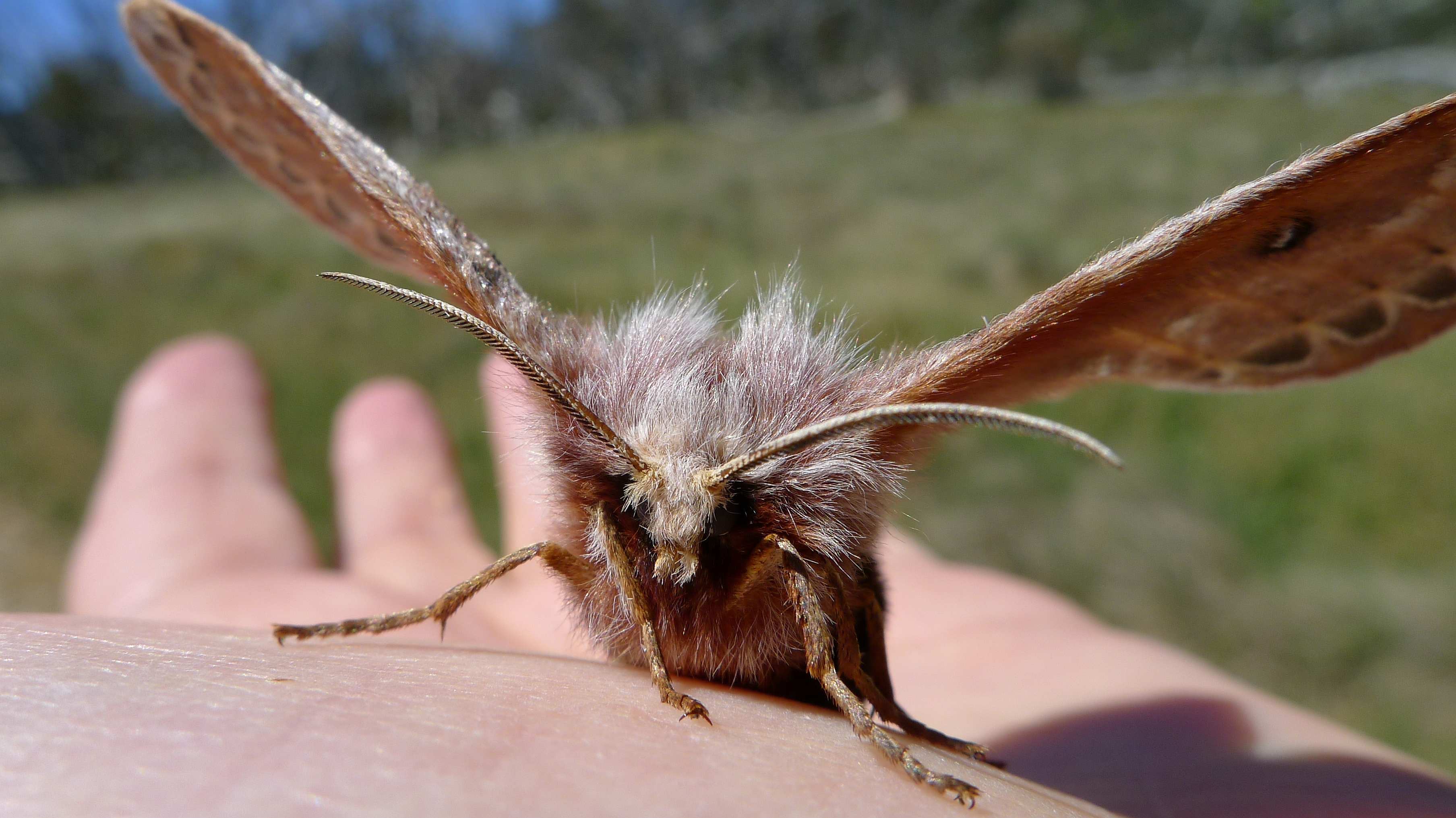 Female Anthela oressarcha. Dargo High Plains, VIC Australia, December 2012.